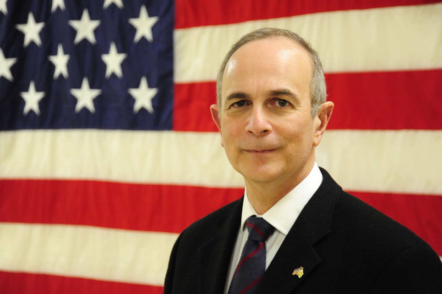 Official portrait of Terry Phillips, 2012 independent candidate for the U.S. House of Representatives in California's 23rd congressional district.